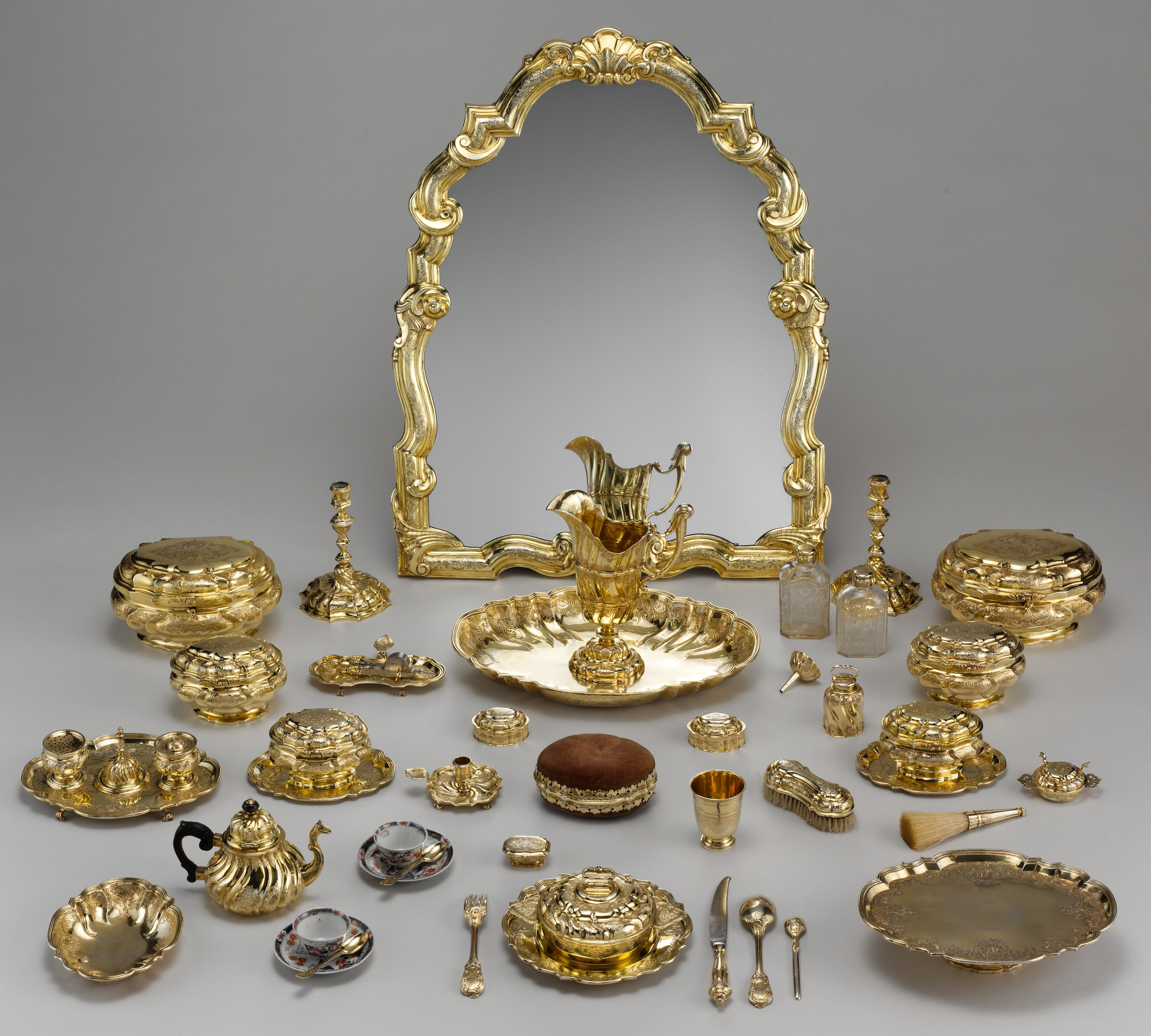 German, Augsburg; Toilet set in case; Metalwork-Silver